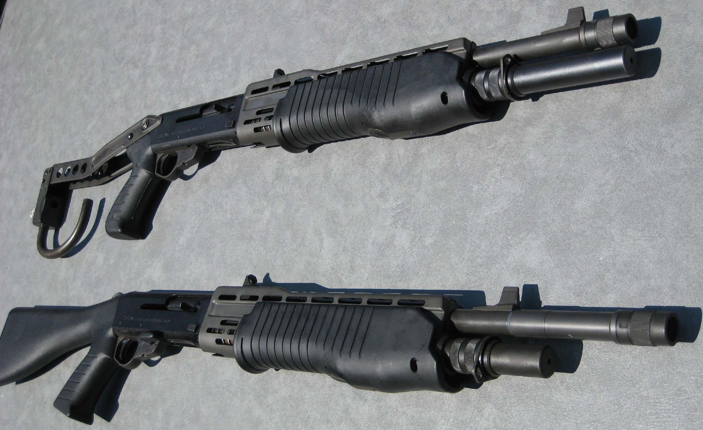 Two of the most common SPAS 12 variants. A folding stock version, with an 8-round magazine, and a fixed stock version with a 6-shot magazine. The lower gun has the recalled lever-type safety.